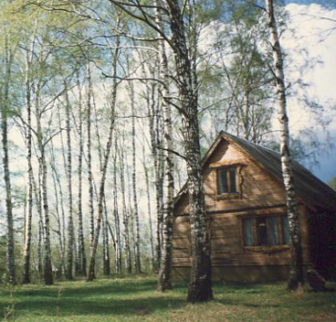 The Composers' House in Ivanovo. One of the dashas.